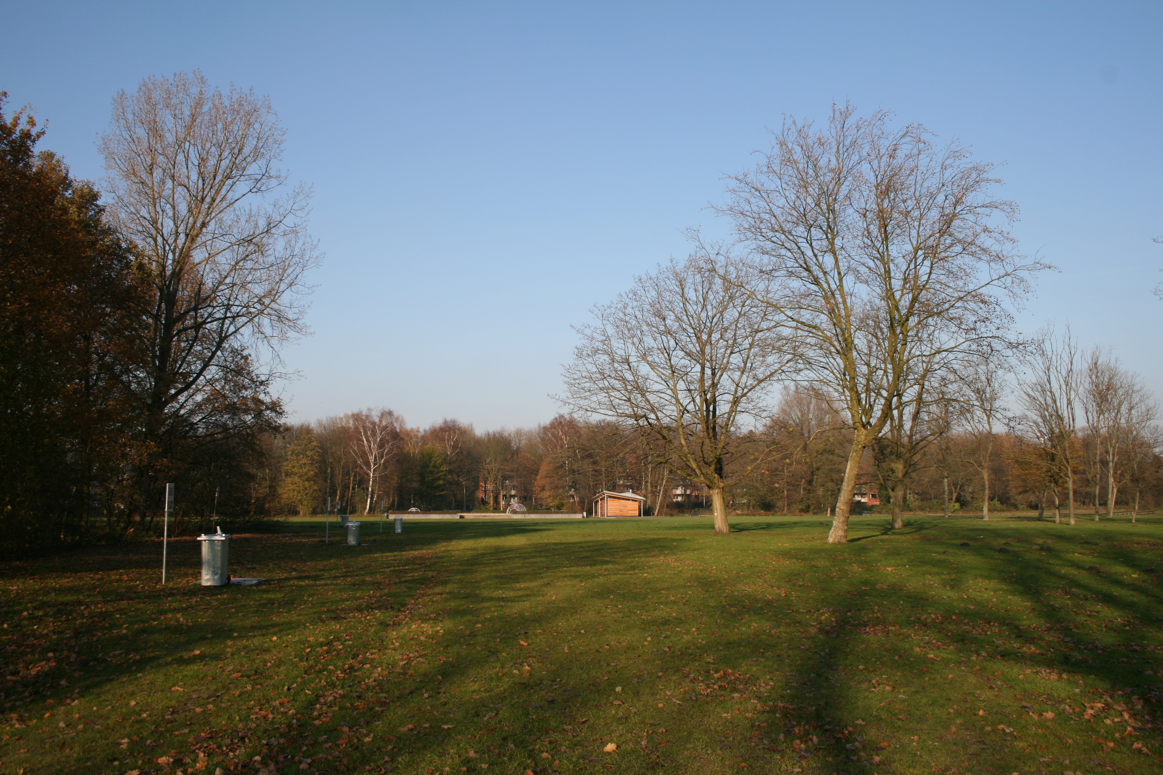 The Eendrachtspark is a park in Amsterdam.